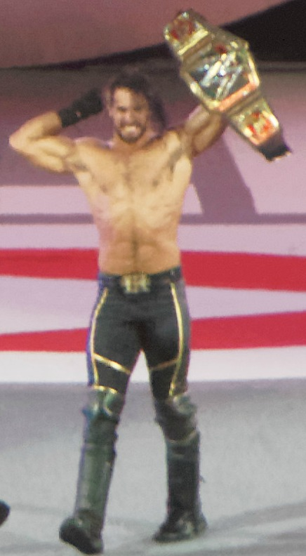 Seth Rollins as WWE World Heavyweight Championship At WrestleMania 31 in March 2015.